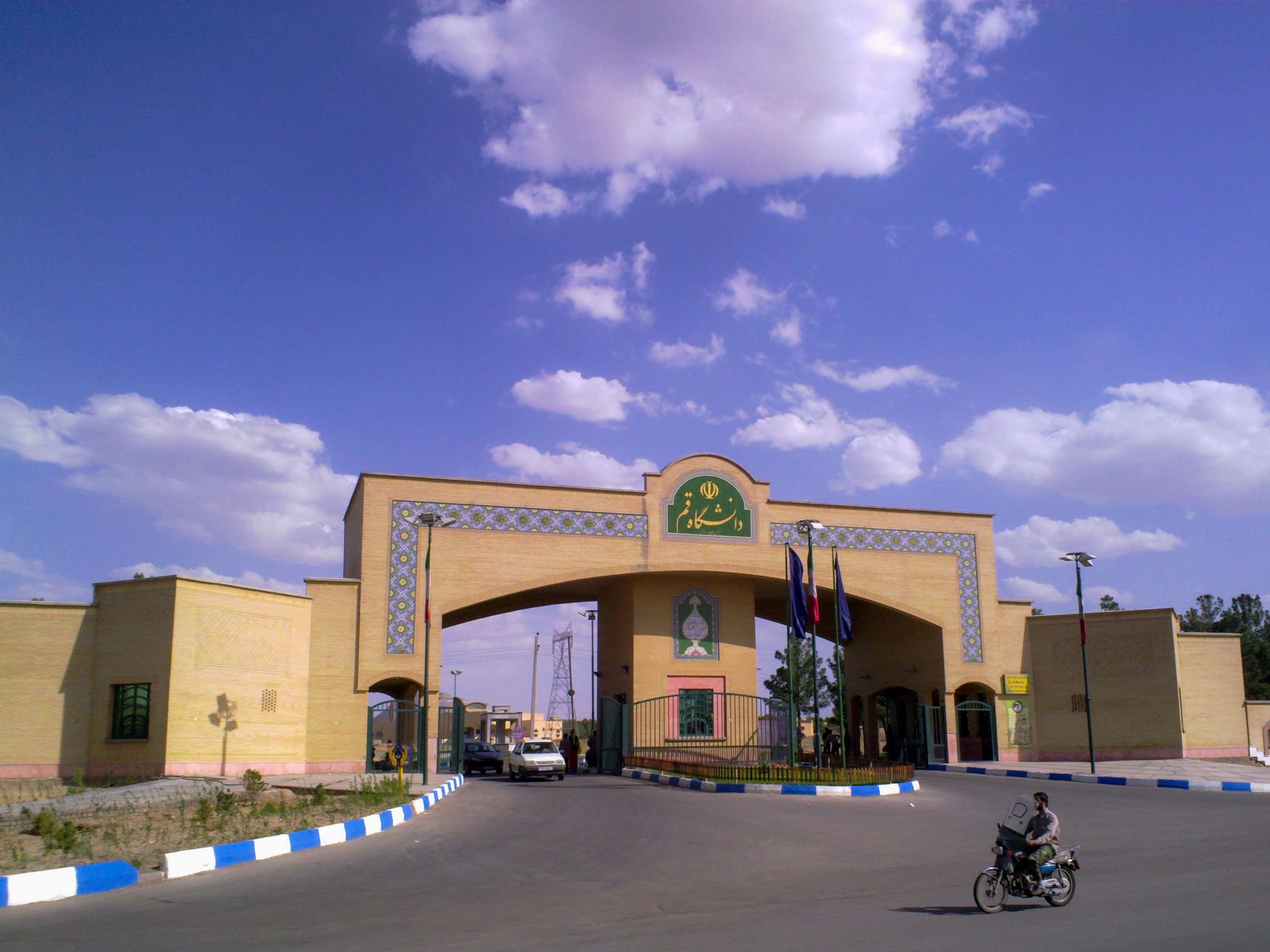 Qom also spelled as Ghom, is the eighth largest city in Iran. It lies 125 kilometres (78 mi) by road southwest of Tehran and is the capital of Qom Province. At the 2011 census its population was 1,074,036 (957,496 at the 2006 census, in 241,827 families), comprising 545,704 men and 528,332 women. It is situated on the banks of the Qom River. Qom is considered holy by Shiʿa Islam, as it is the site of the shrine of Fatema Mæ'sume, sister of Imam `Ali ibn Musa Rida (Persian Imam Reza, 789–816 AD). The city is the largest center for Shiʿa scholarship in the world, and is a significant destination of pilgrimage. Qom is famous for a brittle toffee called “Sohan” (Persian:سوهان), considered a souvenir of the city and sold by 2,000 to 2,500 “Sohan” shops.